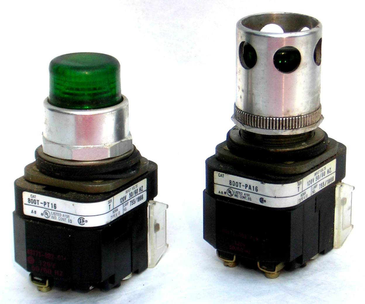 Allen Bradley 800 (30mm) system push buttons